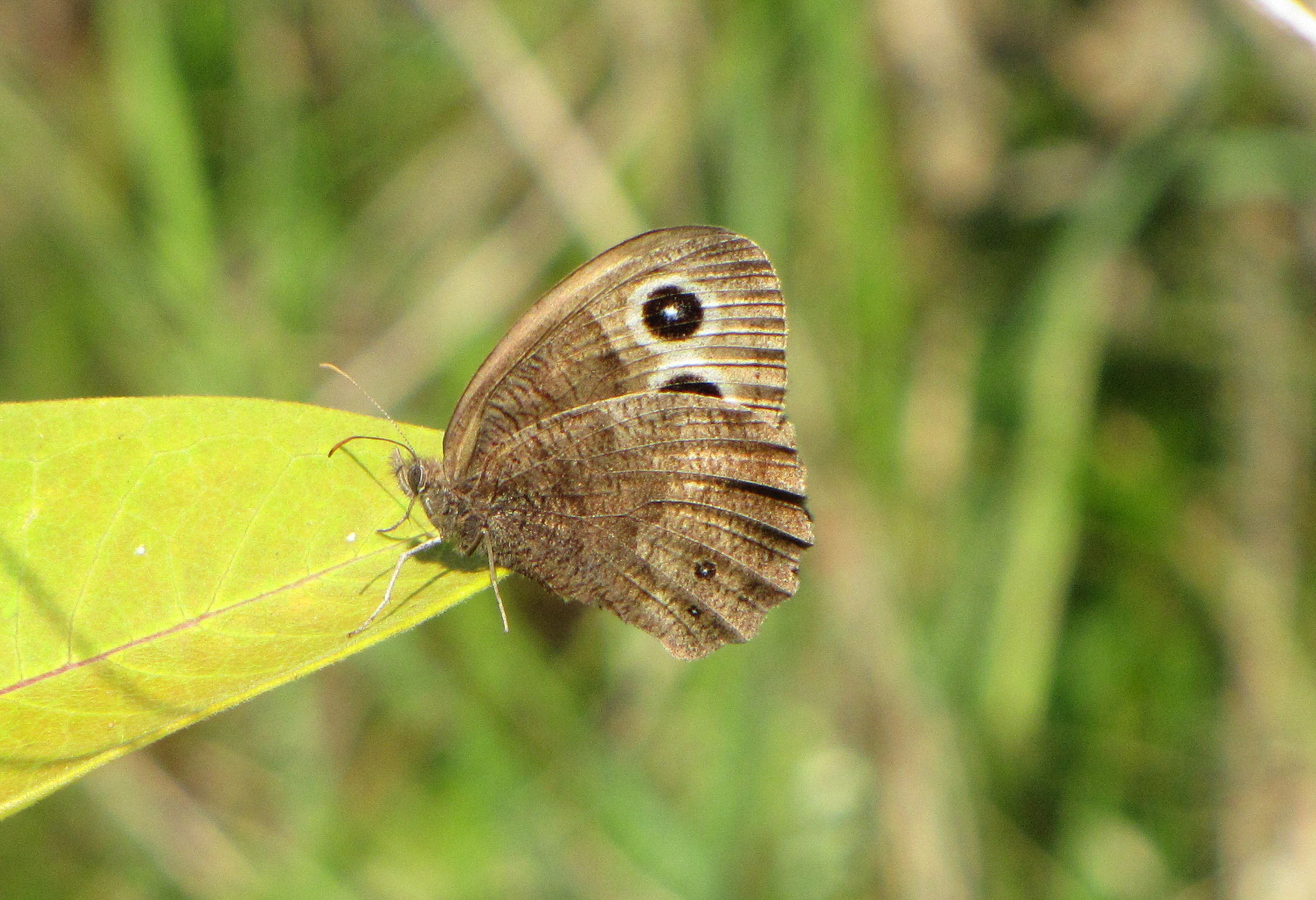 Common Wood Nymph (Cercyonis pegala), Mer Bleue Conservation Area, Ottawa, Ontario